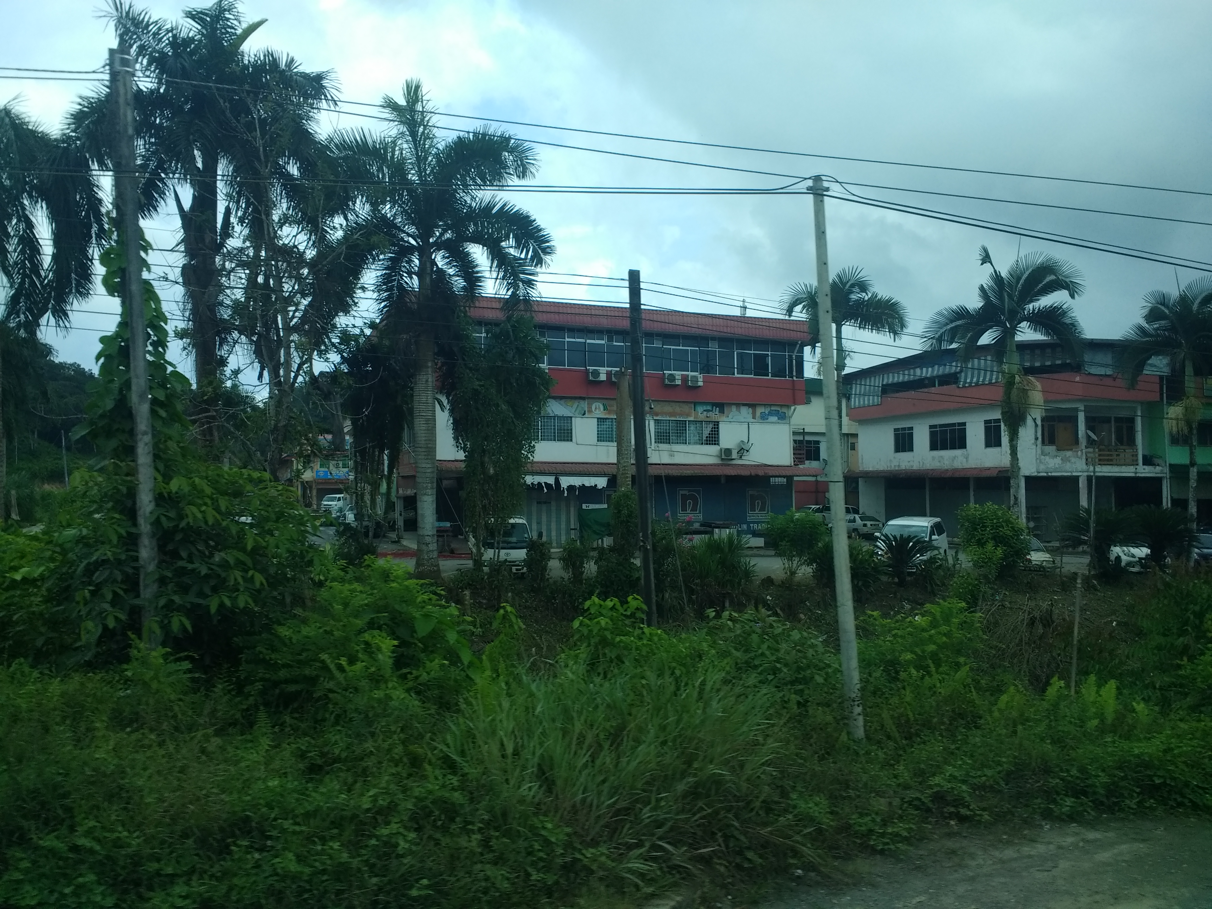 Buildings in Selangau, Sarawak, Malaysia.